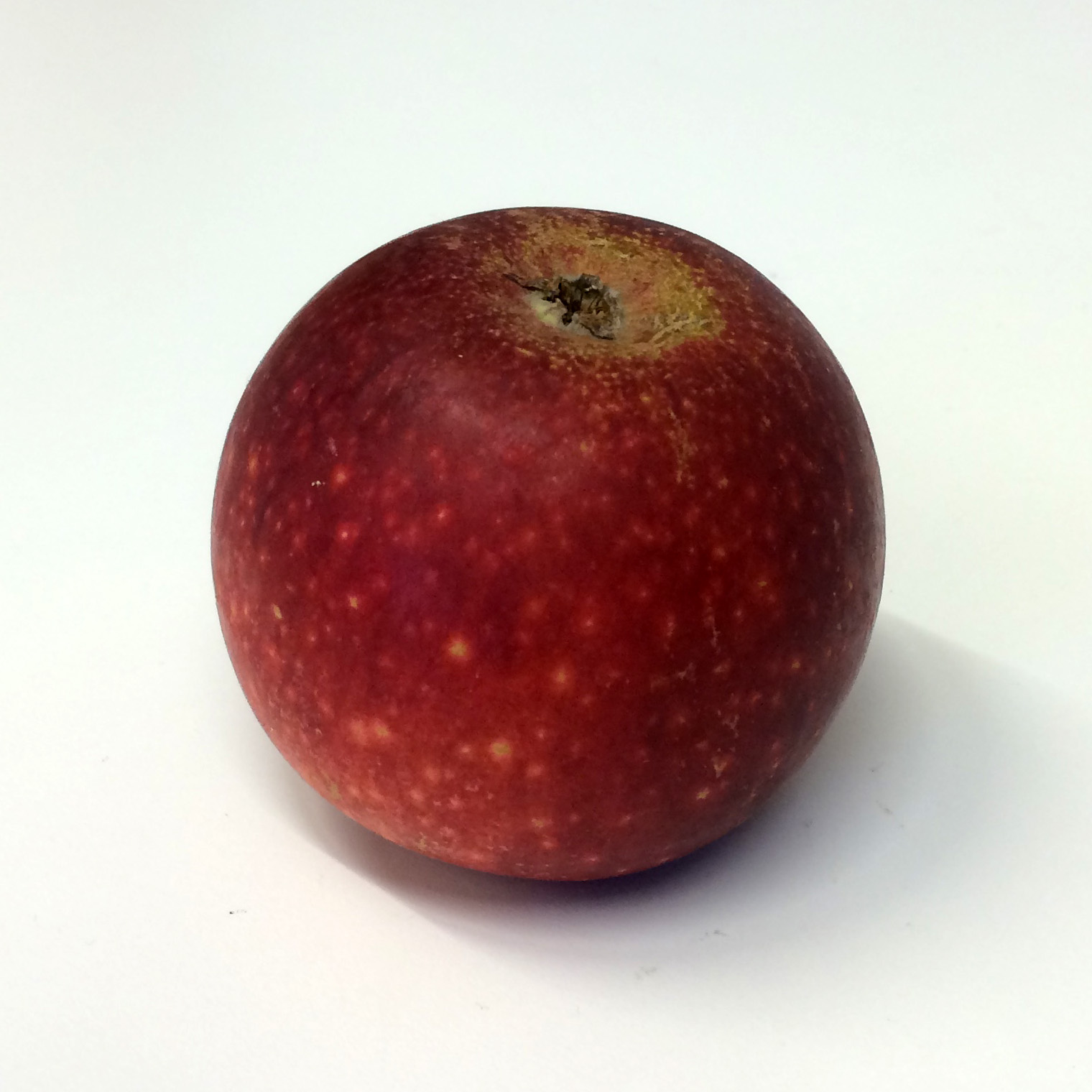 Apple of the cultivar Ingrid Marie, photographed in conjunction with the Apple Festival at Nordiska museet, Stockholm, Sweden in September 2014.